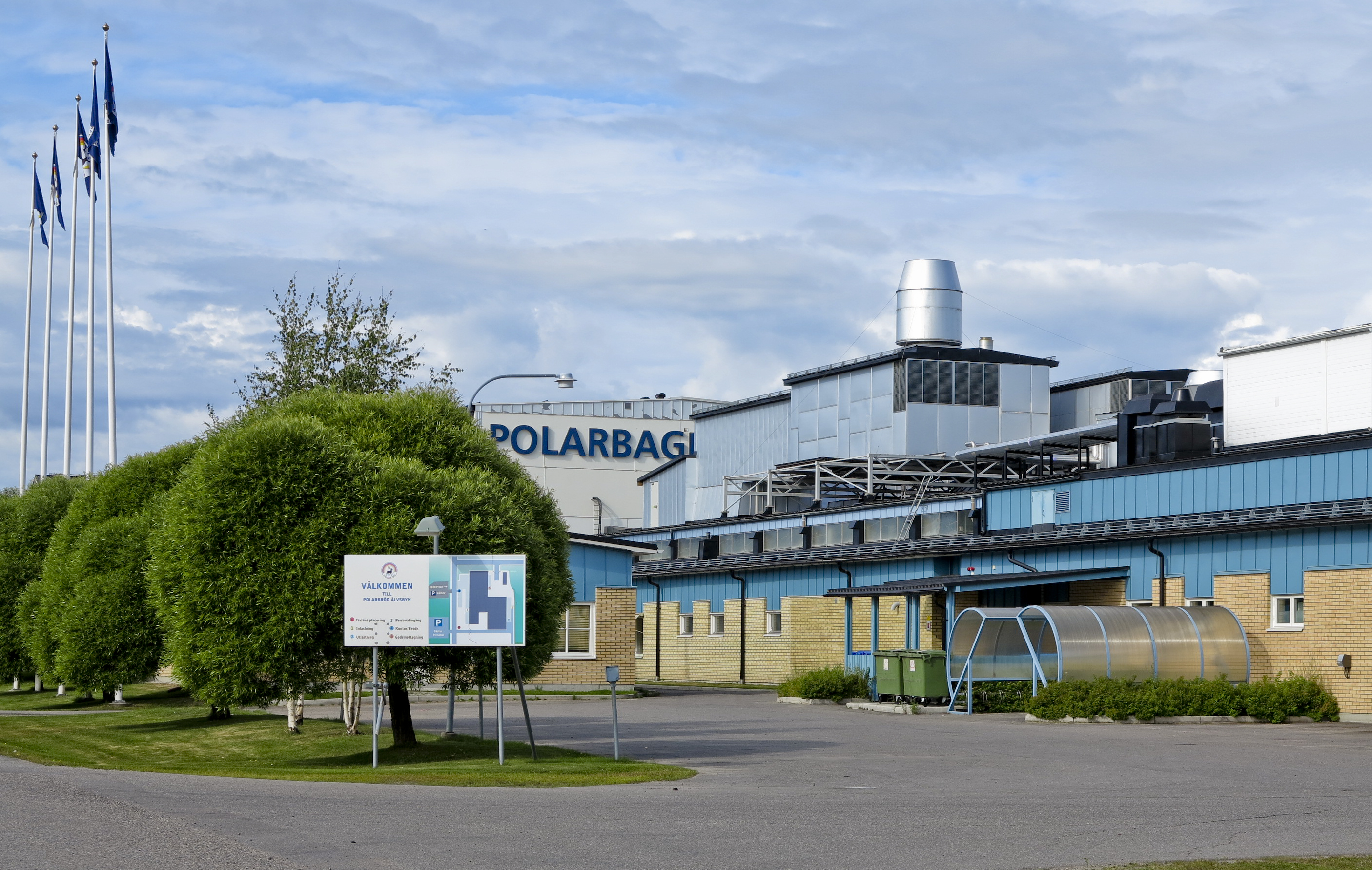 Polarbageriet ("Polar bread bakery"), Älvsbyn, Sweden